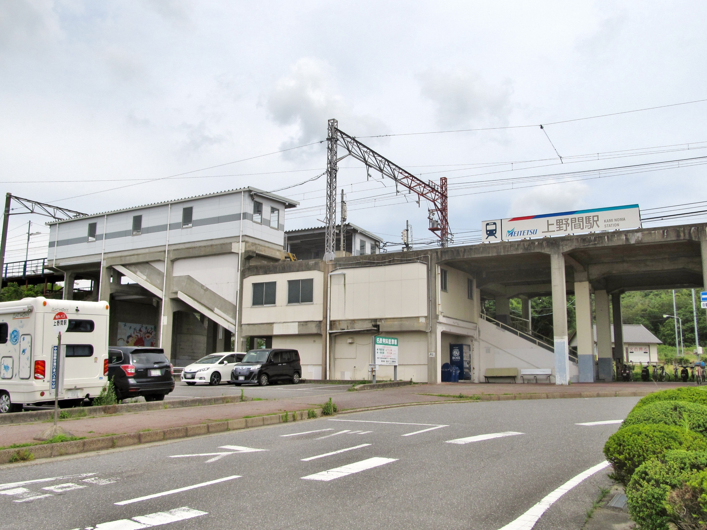 Nagoya Railroad Chita Line Kami Noma Station